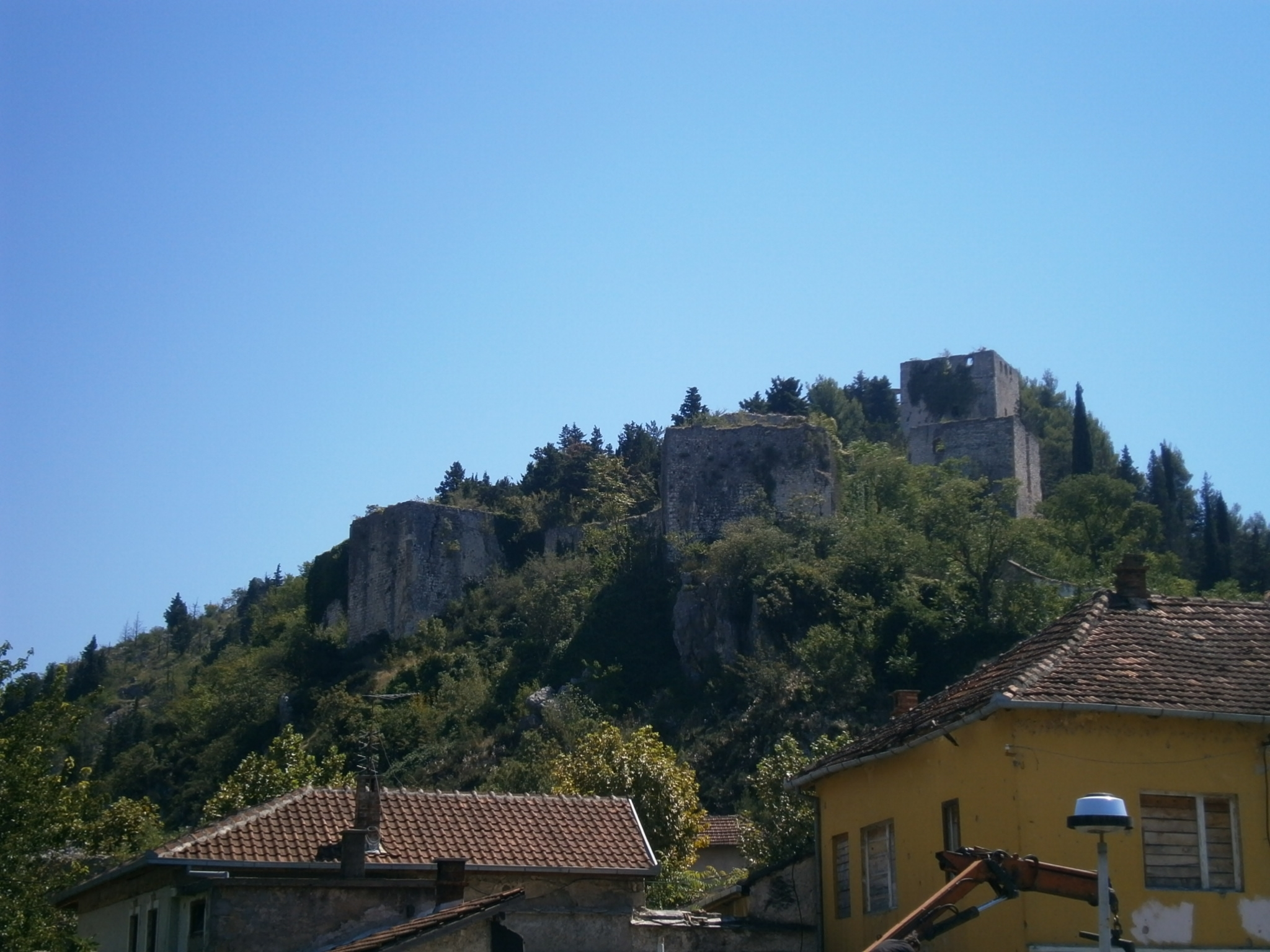 castle above Stolac